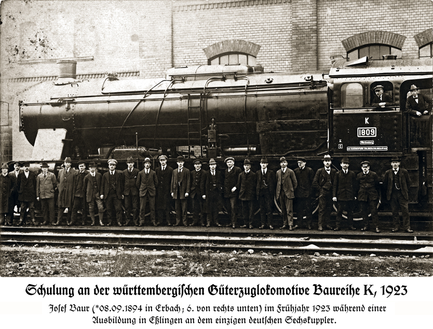 Württemberg Class K steam locomotives of the Royal Württemberg State Railways